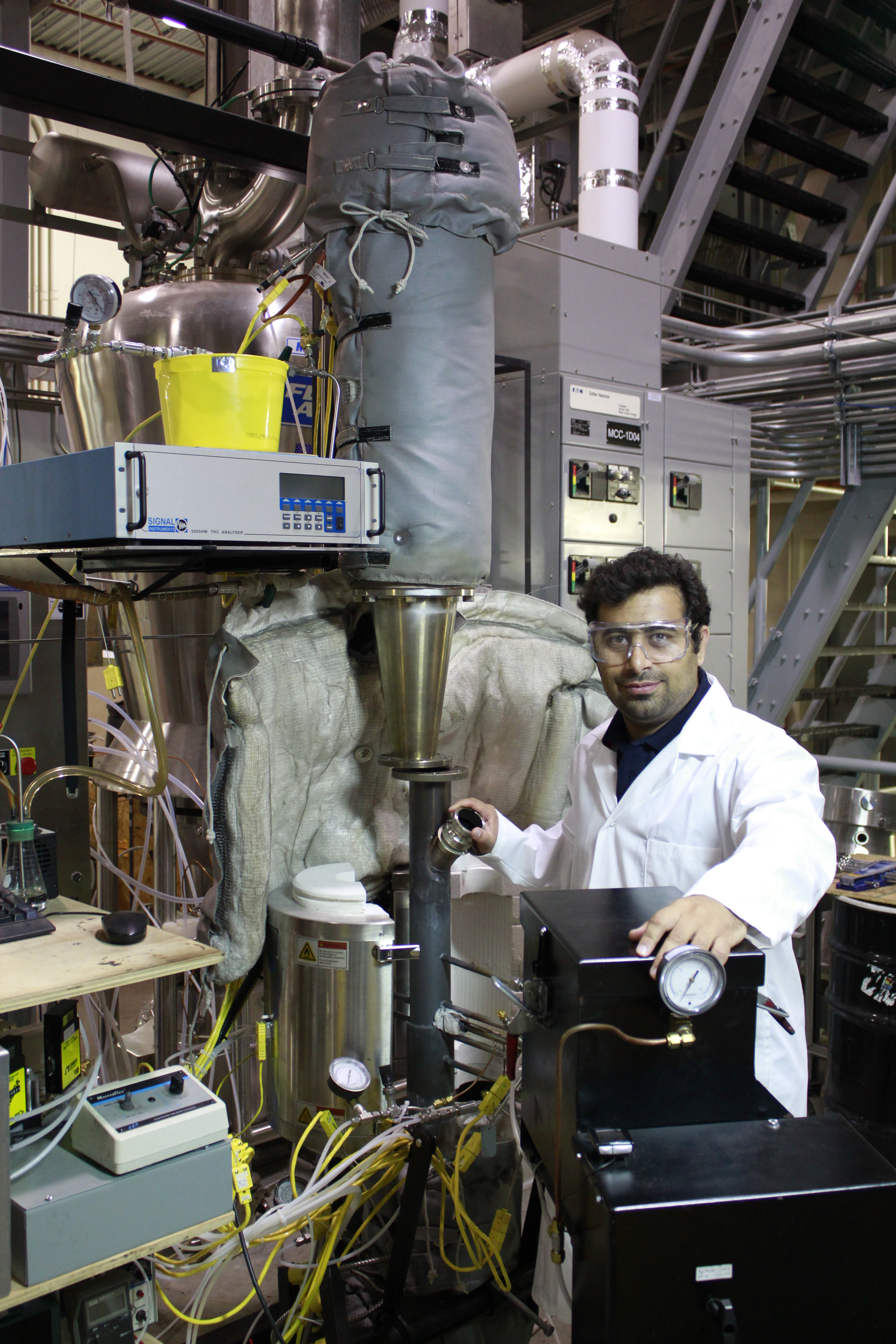 This is a picture of a pilot scale bubbling fluidised bed gasification setup which can be used to gasify biomass or fossil fuels.